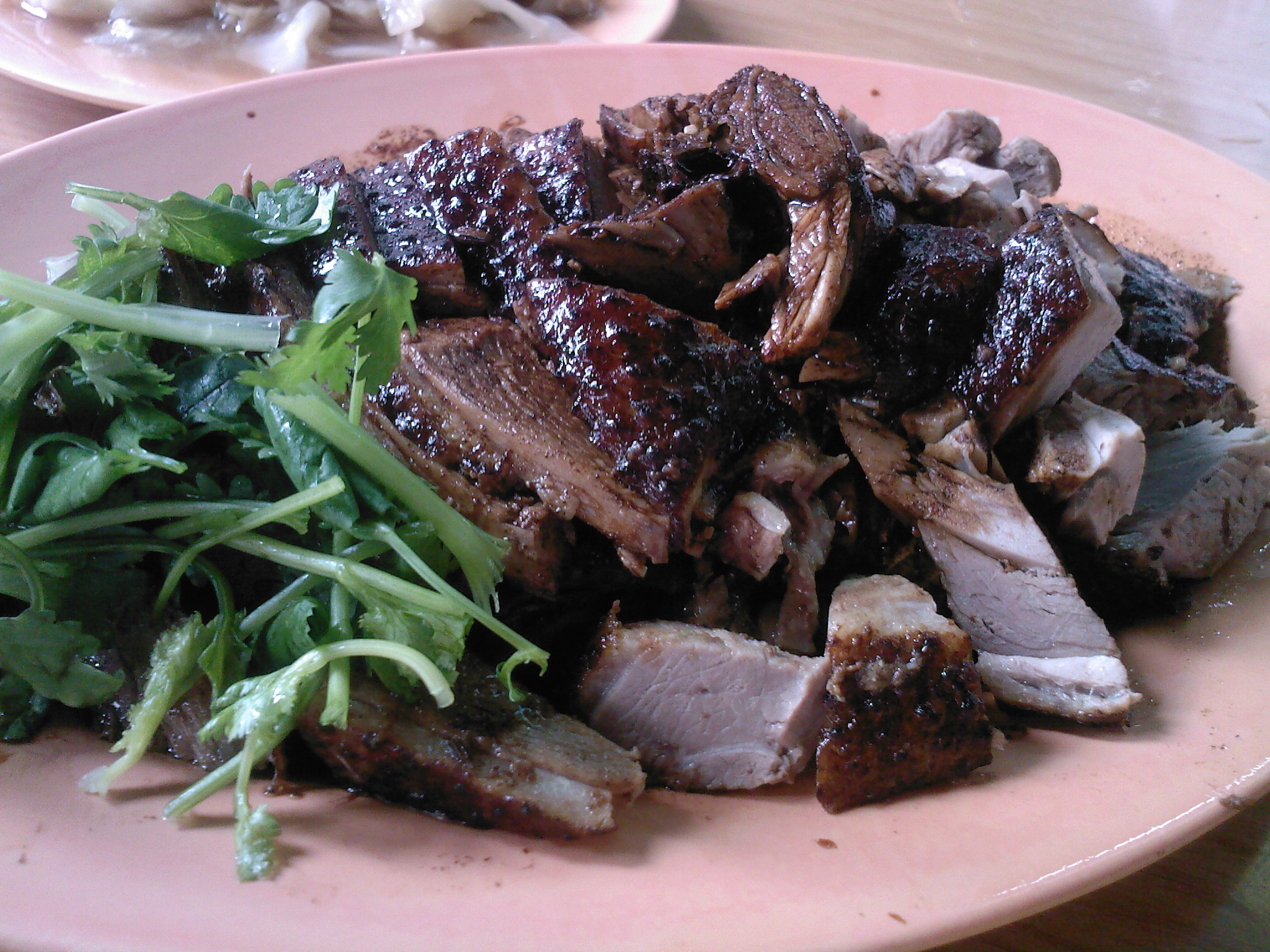 Braised duck, Teochew style